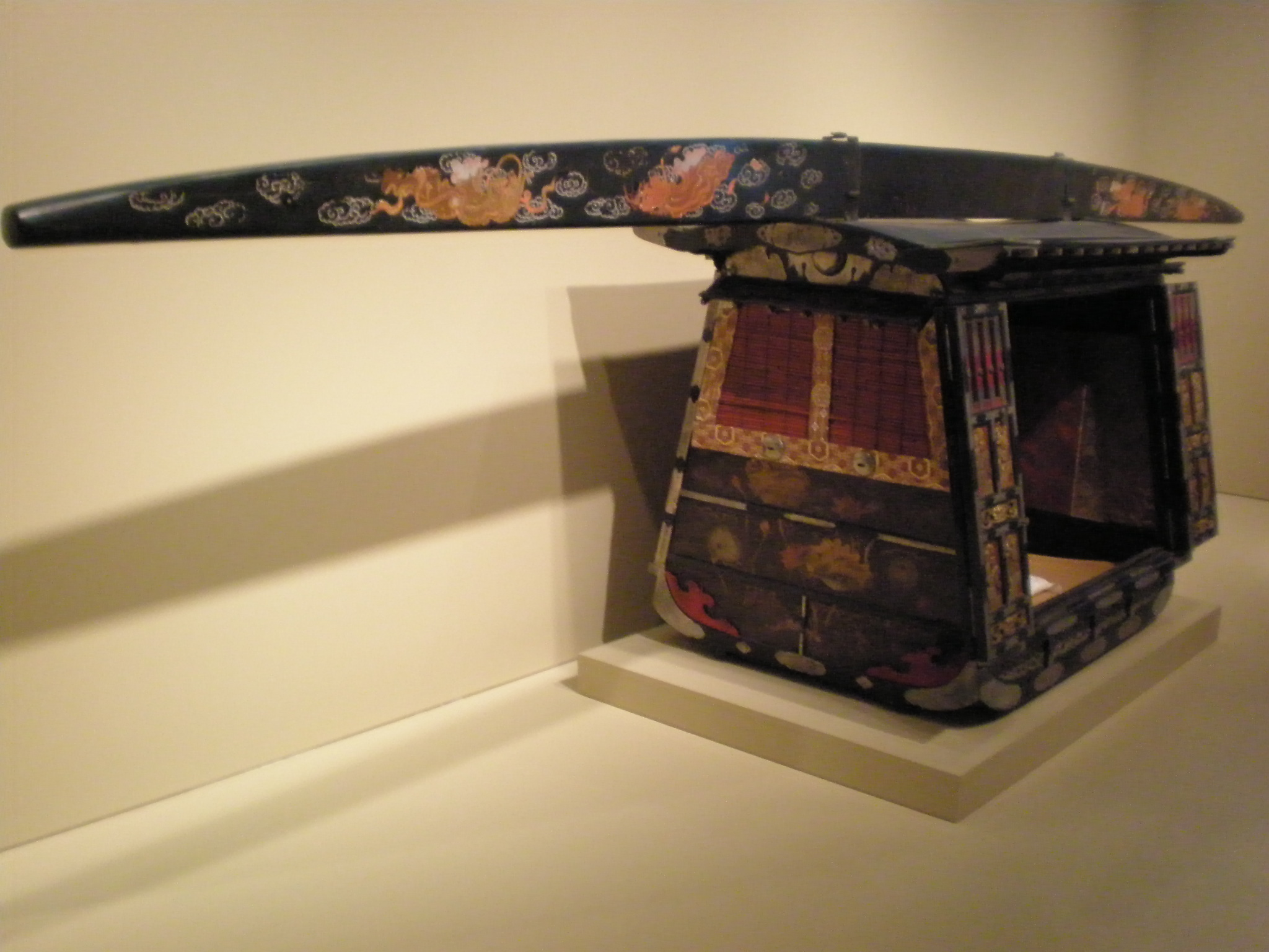 Japanese palanquin (1800-1868) on display at the Asian Art Museum in San Francisco, California. B85M7